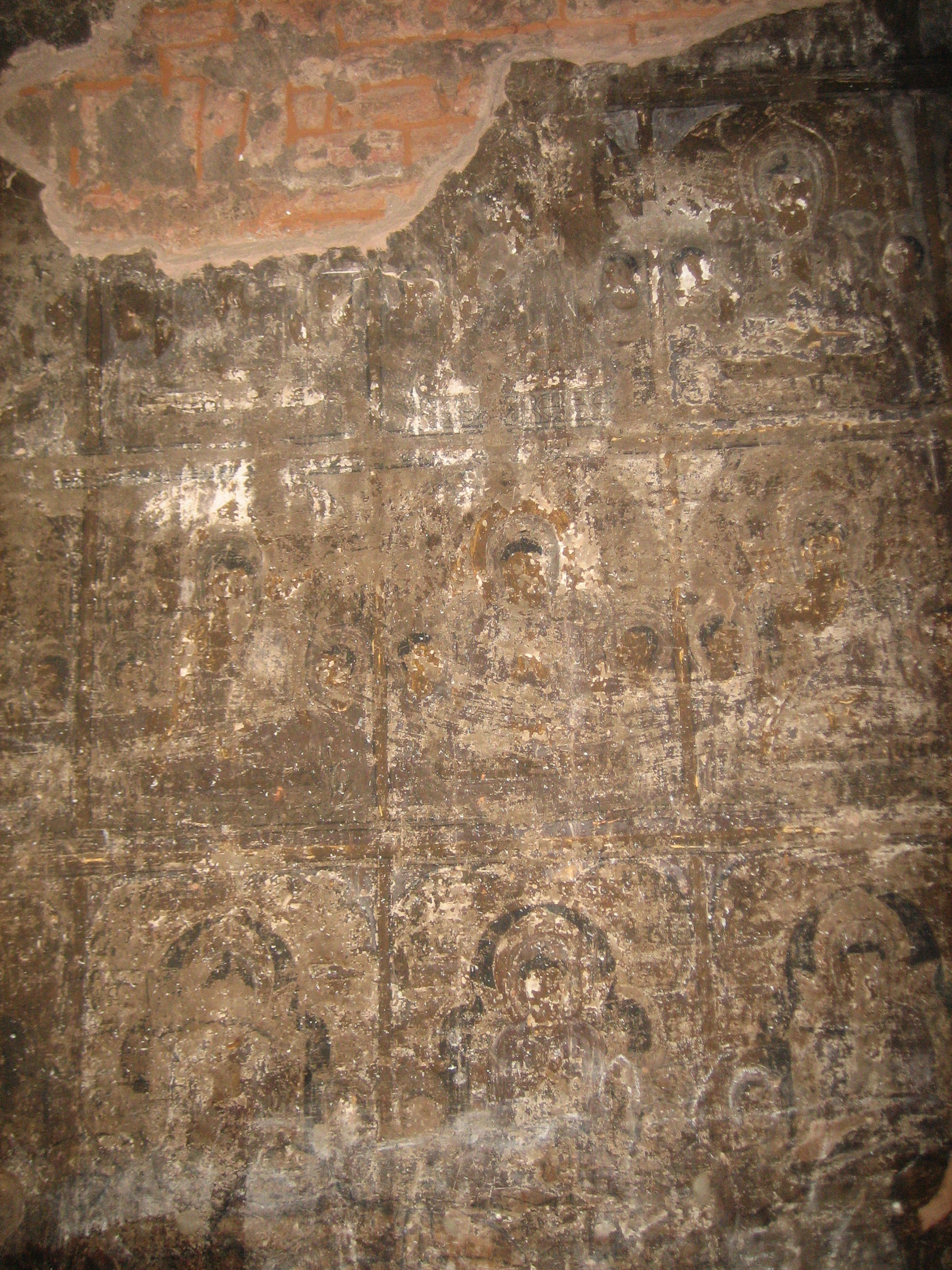 Frescos inside a Bagan temple